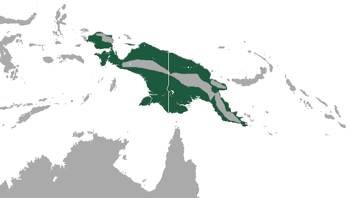 Lesser Naked-backed Fruit Bat (Dobsonia minor) range